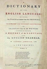 Volume One of Samuel Johnson's A Dictionary of the English Language title page